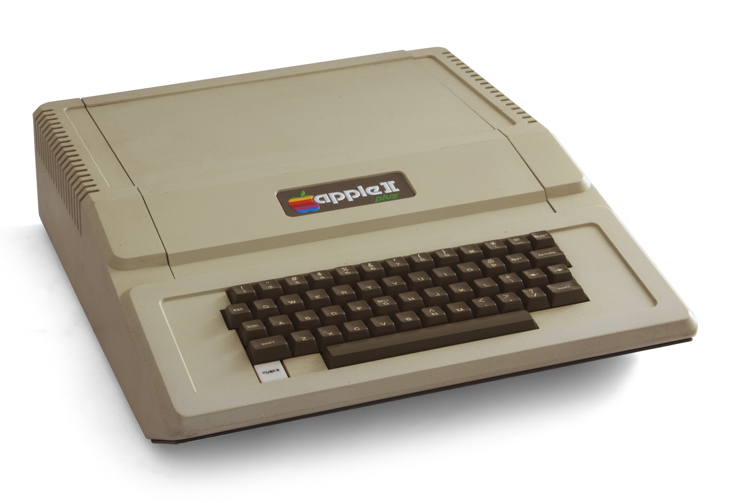 cropped version of file:Apple II Plus.jpg